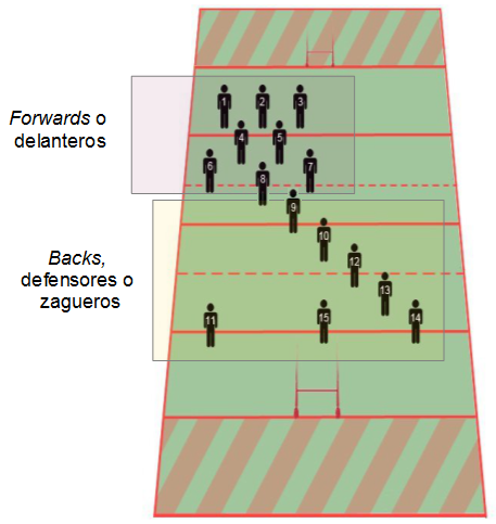 Rugby. Backs & forwards